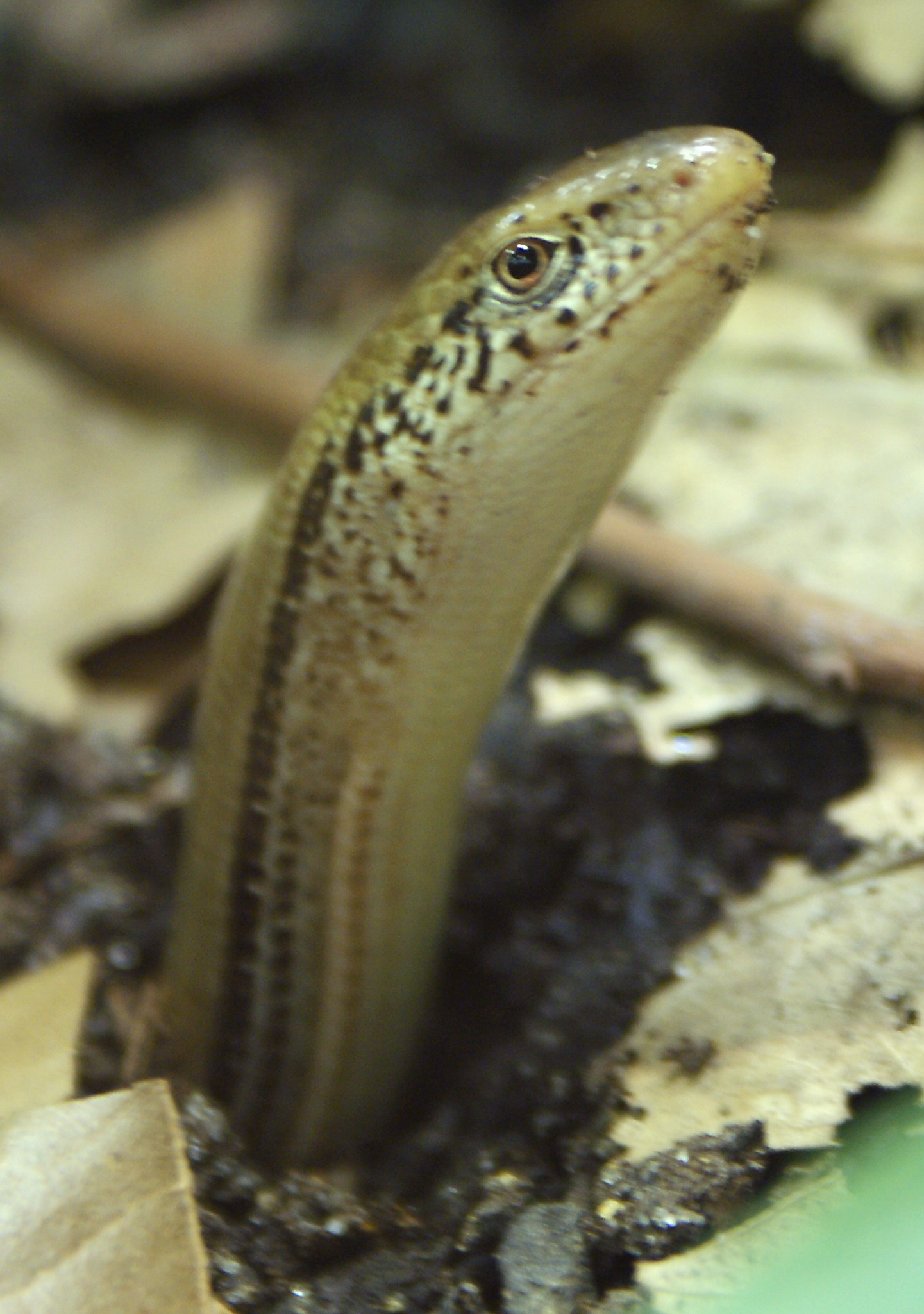 Western Slender Glass Lizard, Ophisaurus attenuatus attenuatus emerging from a burrow in leaf litter. St Louis Zoo